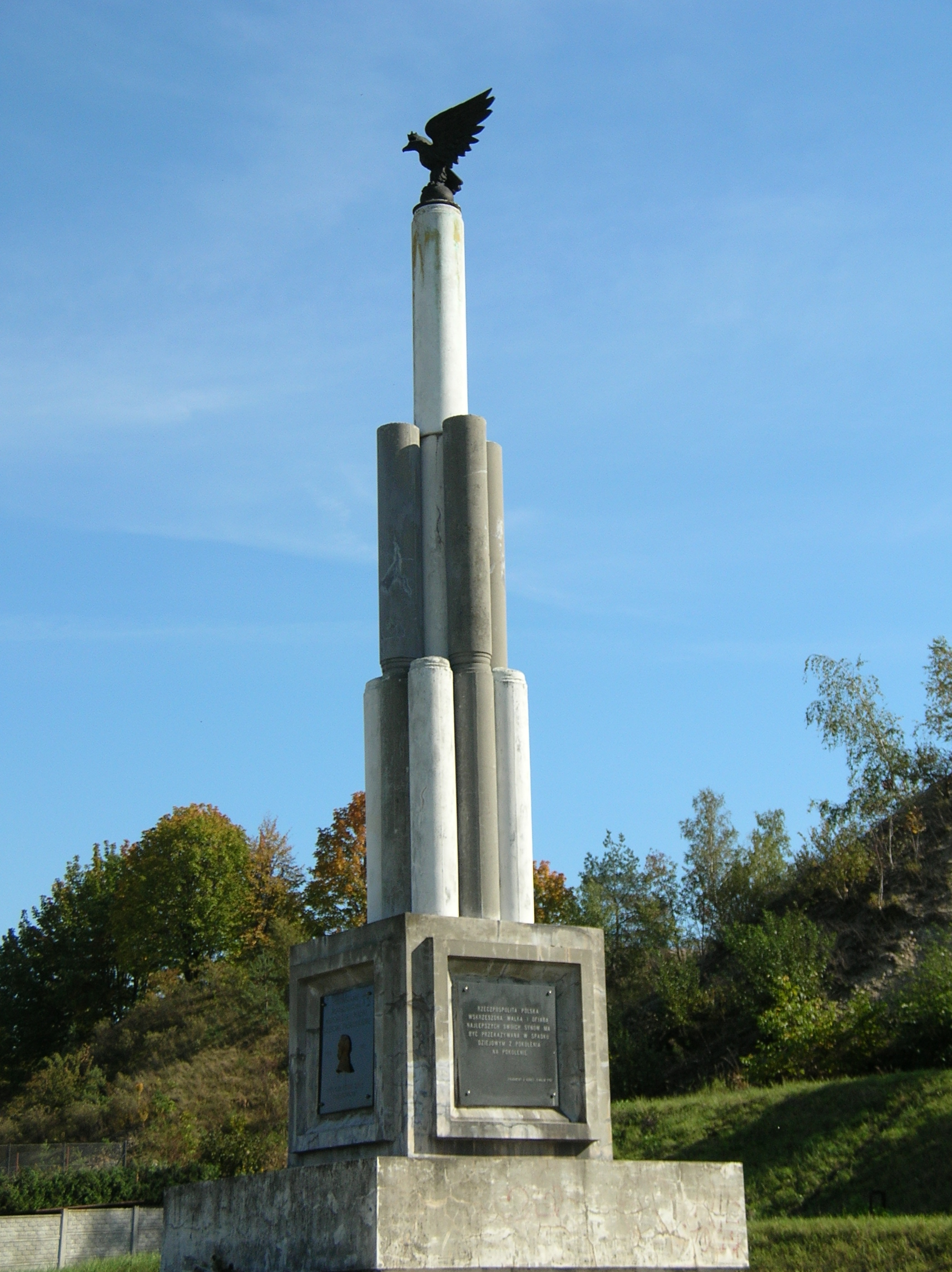 Nawojowa Góra. Pomnik ku czci I Brygady z 1991. Monument of the I Brigade of the Polish Legions from 1991.